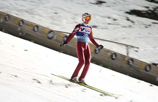 Kamil Stoch during canceled competition of FIS Ski-Flying World Championships 2012 in Vikersund